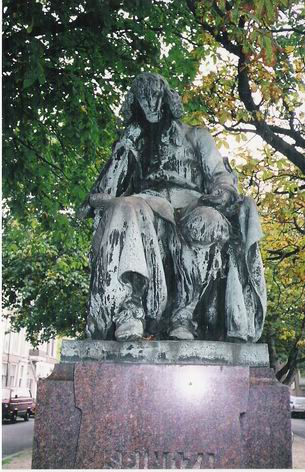 Statue of the philosopher Spinoza, near his house on the Paviljoensgracht in The Hague.